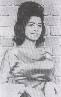 black and white picture, subject: Saloma